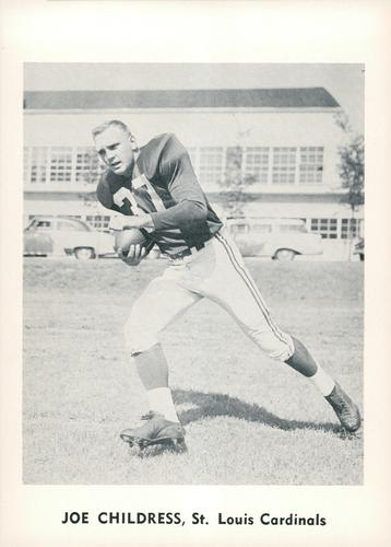 A promotional image of St. Louis Cardinals American football player Joe Childress.